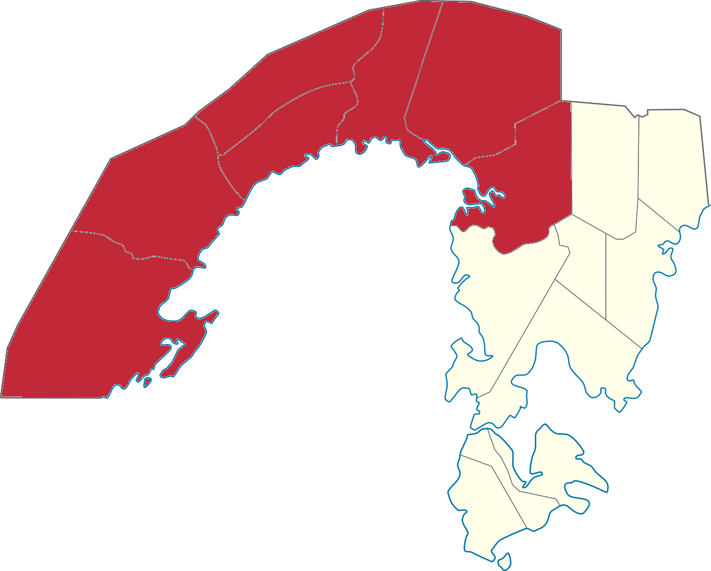 Location of 1st Legislative district of Zamboanga Sibugay, Philippines